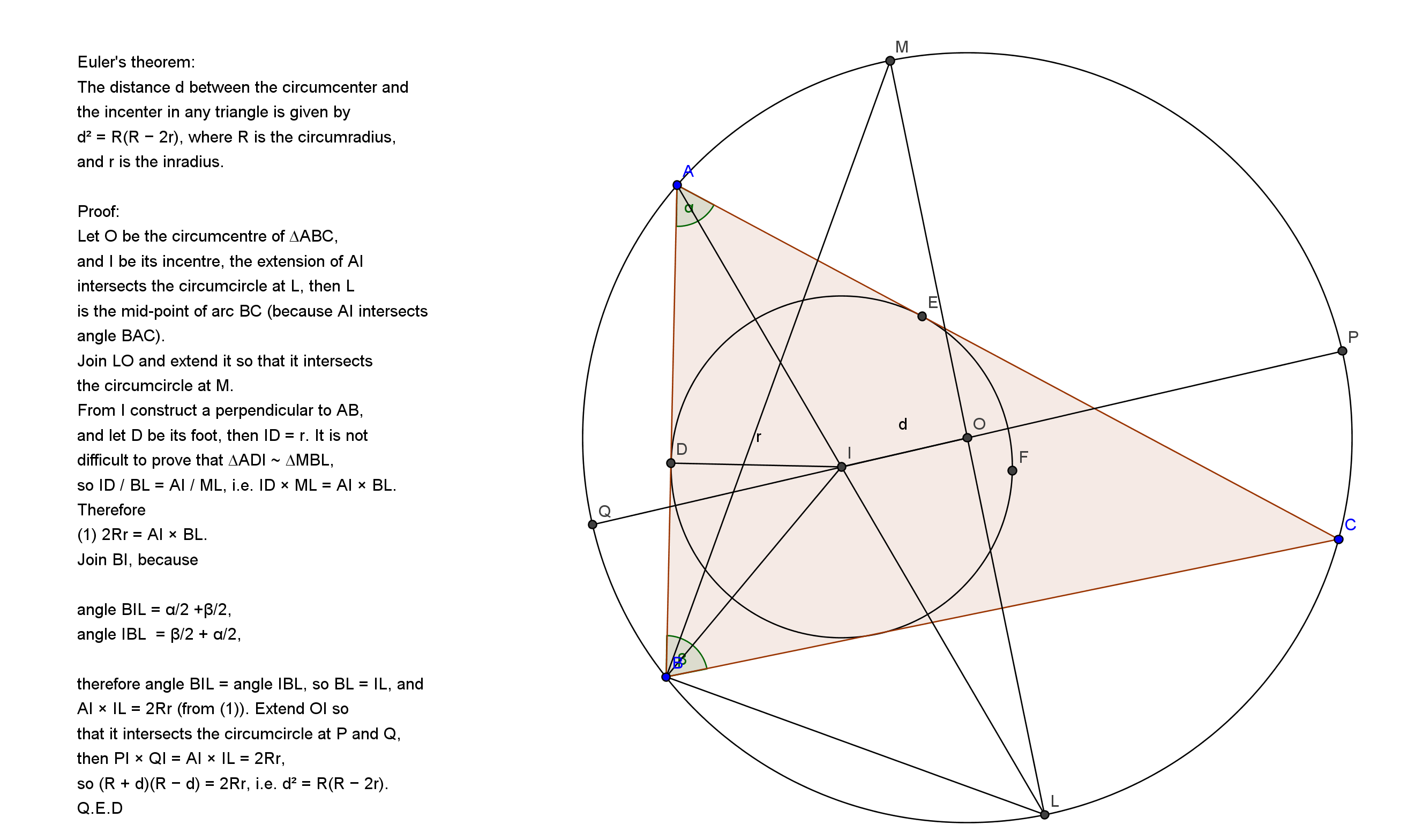 Made for the article on Euler's theorem in geometry in wikipedia